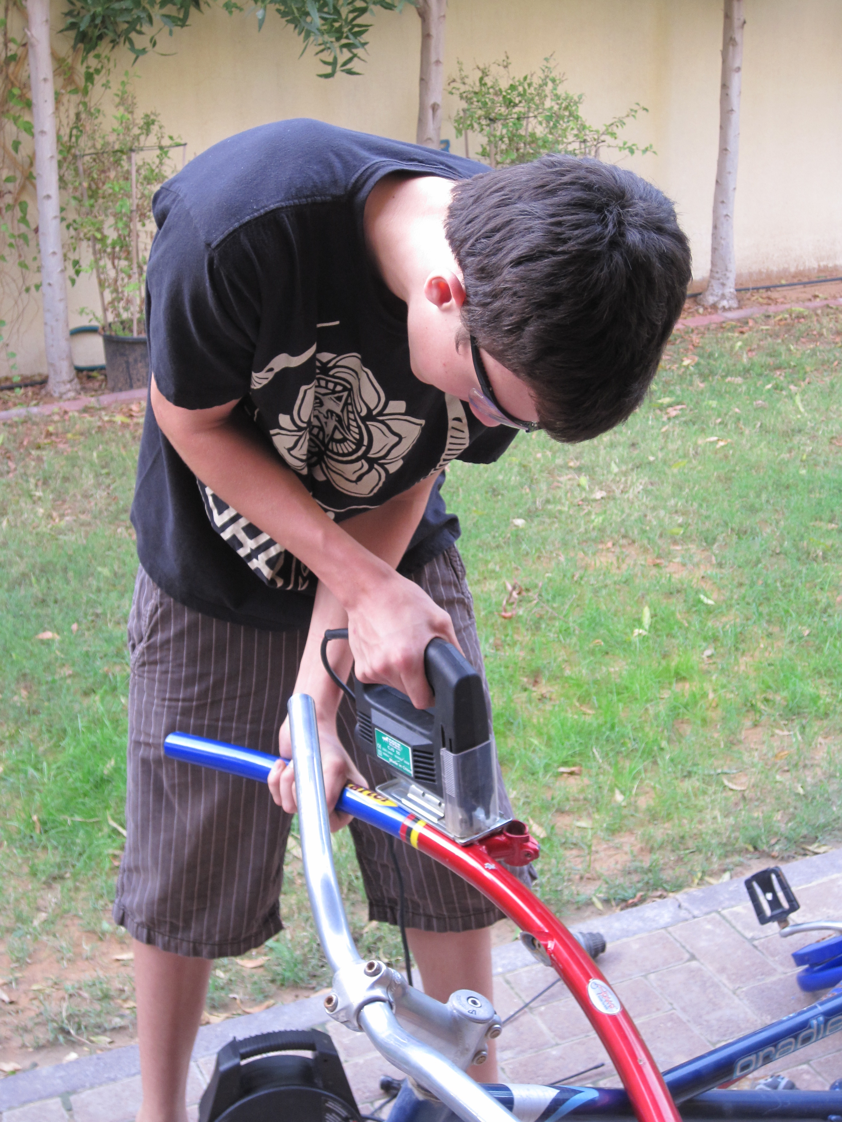 Building a fixed gear bike